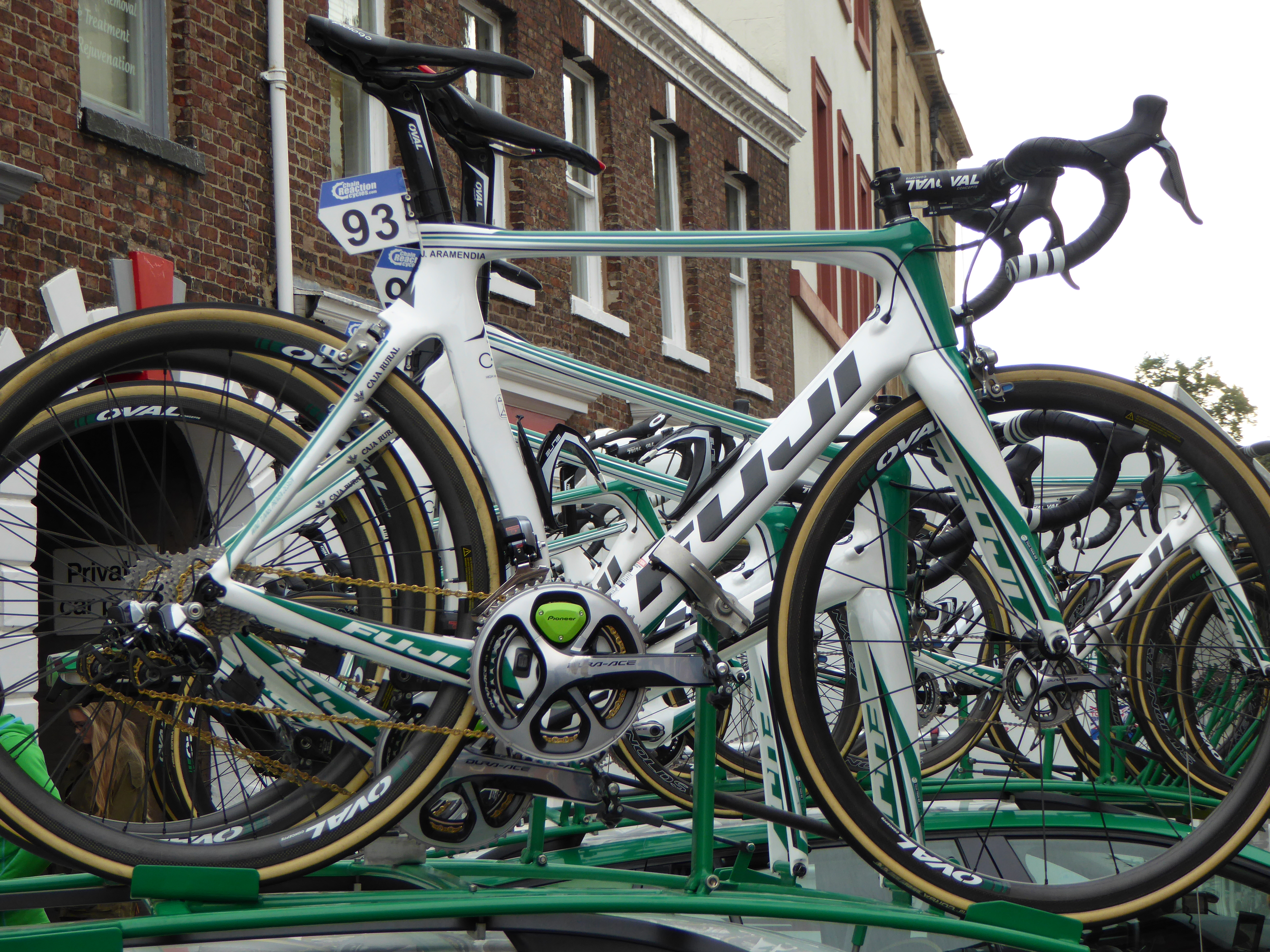 The Fuji bikes of the Caja Rural-Seguros RGA team, pictured before Stage 2 of the 2016 Tour of Britain in Carlisle on 5 September 2016.